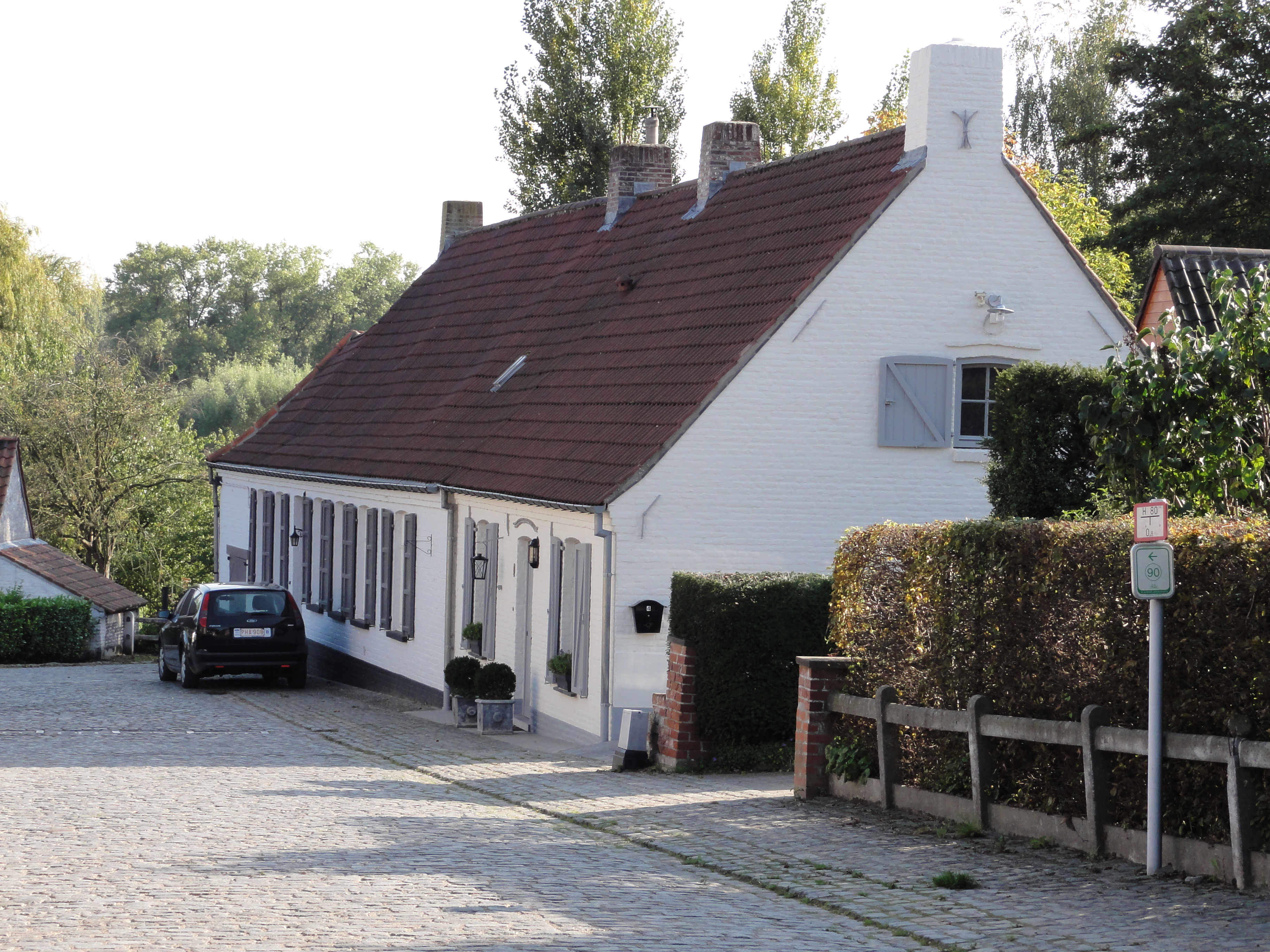 Village houses at Lededorp 4, 6 and 8. Lede, Wannegem-Lede, Kruishoutem, East Flanders, Belgium